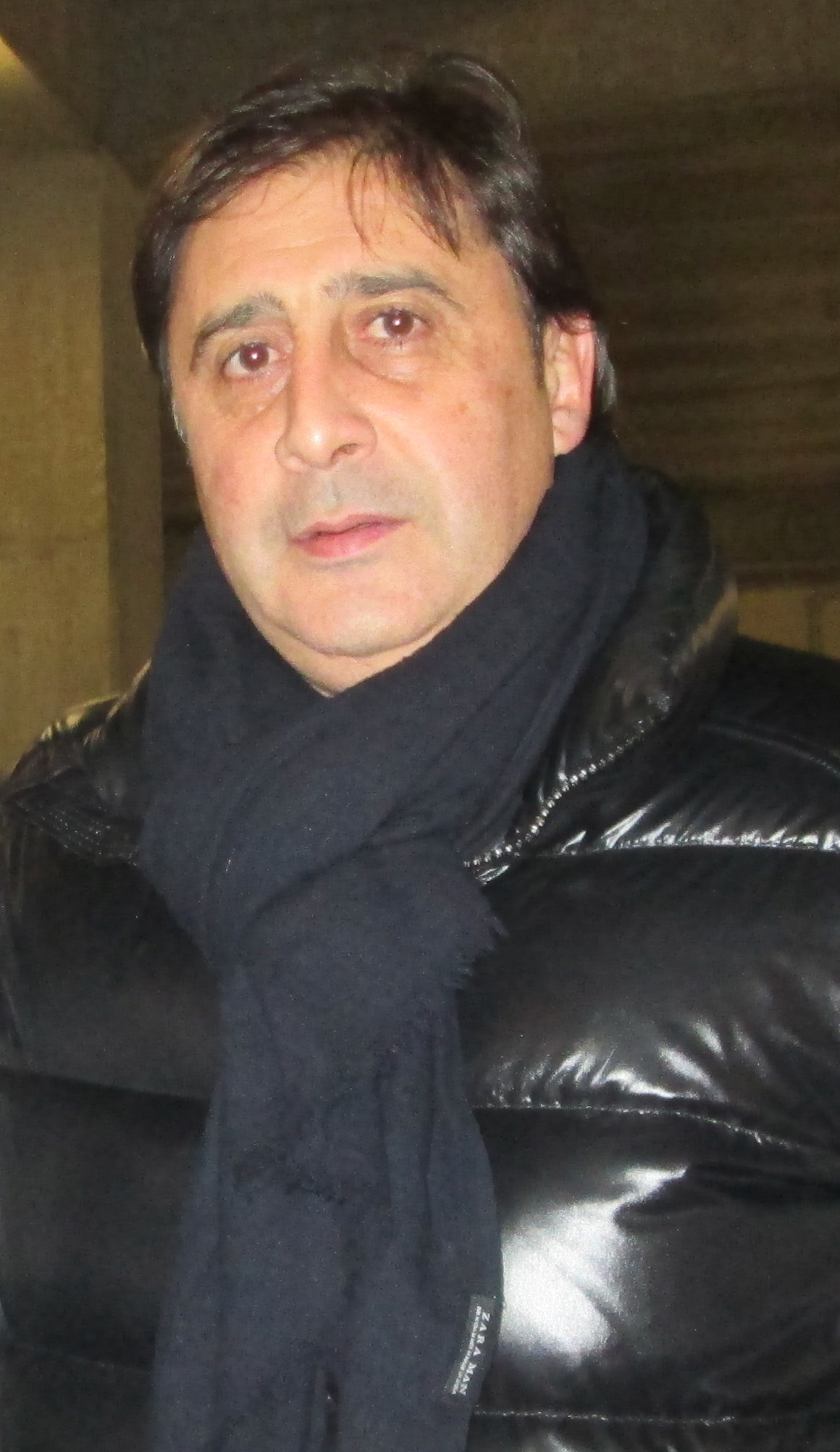 Loren Juarros, former player of Real Sociedad, Photo taken on December 4th, 2014 in Oviedo